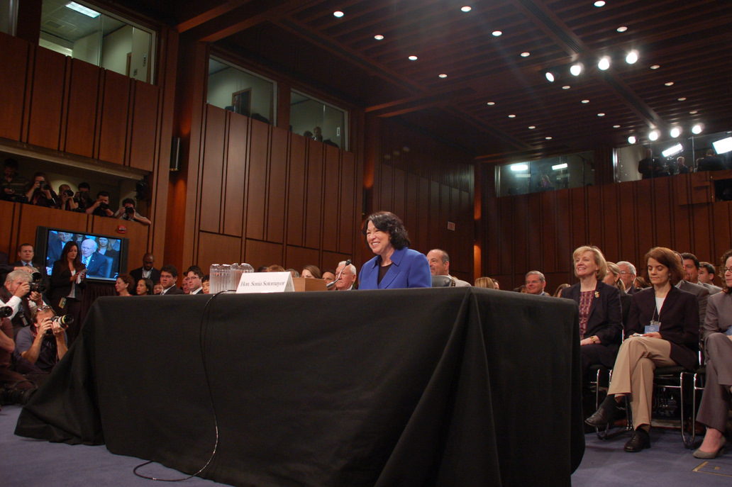 Sonia Sotomayor on the first day of confirmation hearings on July 13, 2009.